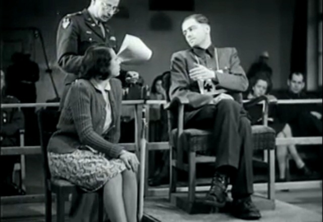 Joachim Peiper (1915-1976) with prosecutor Colonel Burton L. Ellis and female translator, Malmedy massacre War Crimes Trial